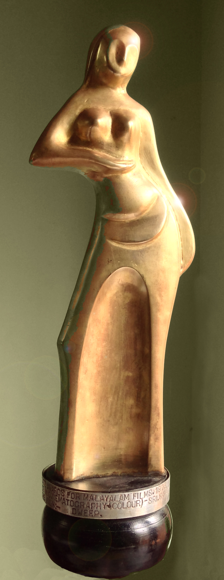 Kerala State Film Award Satuette , Memento